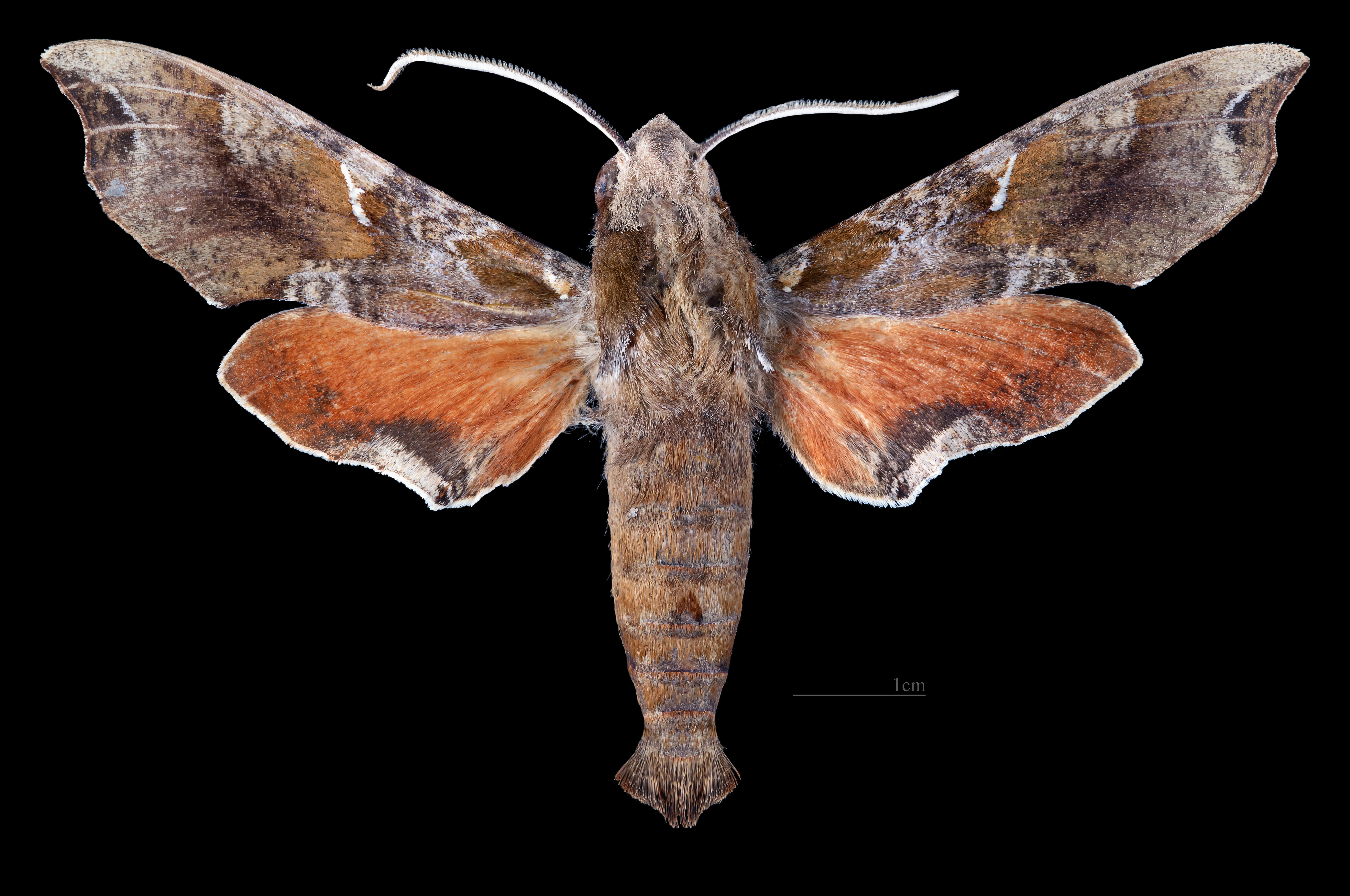 Callionima grisescens - Dorsal side Collection of the Mathematician Laurent Schwartz